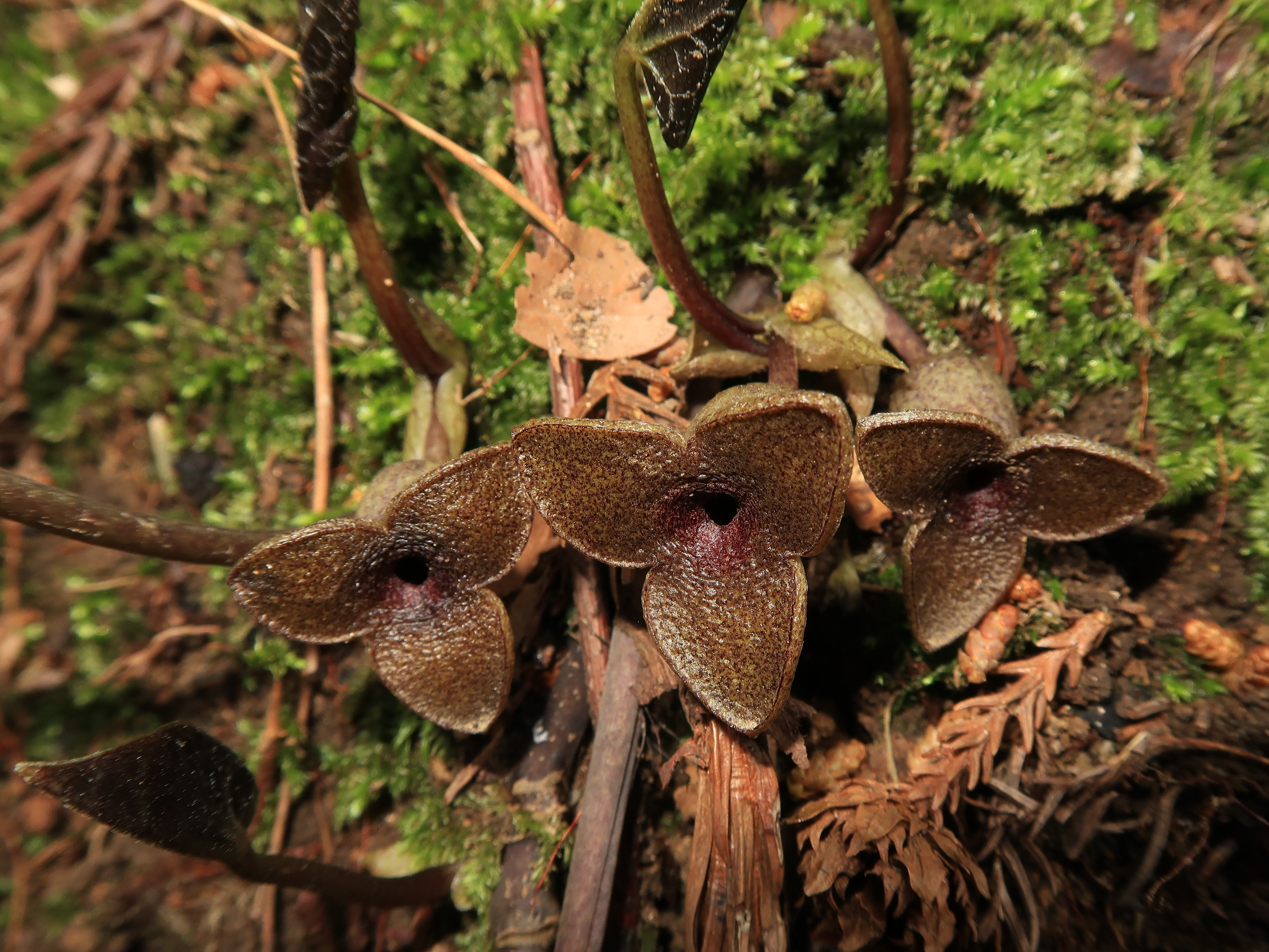 Asarum yoshikawae, Joetsu city, Niigata pref., Japan